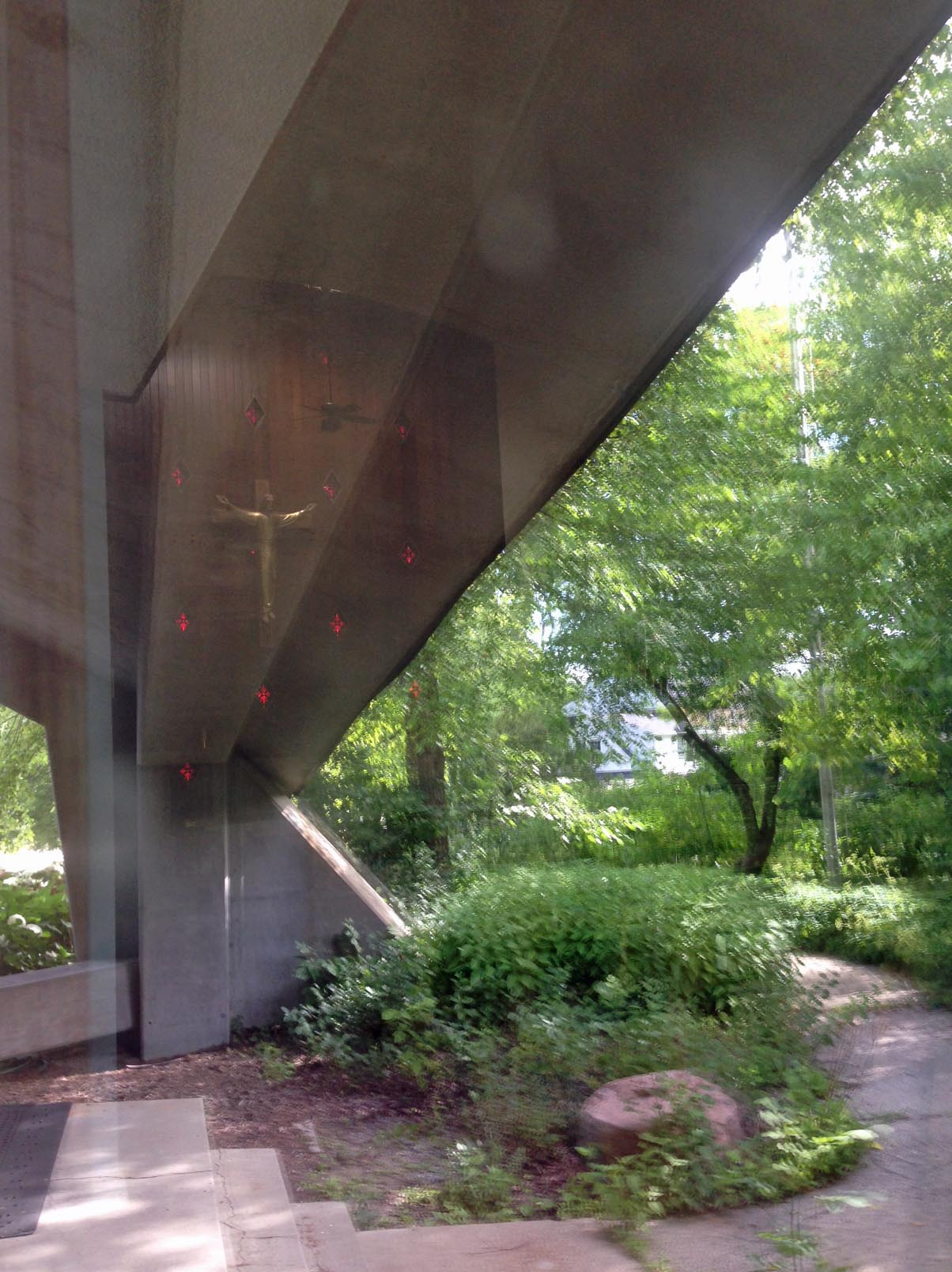 St. Edmunds Church on Watertown Plant Road in Elm Grove, Wisconsin was designed by the renowned Milwaukee architect William Wenzler and was completed in 1957. It is one of the best local examples of MidCentury Modern Architecture. The altar is lit by natural light filtered through the diamond windows on the front of the building.